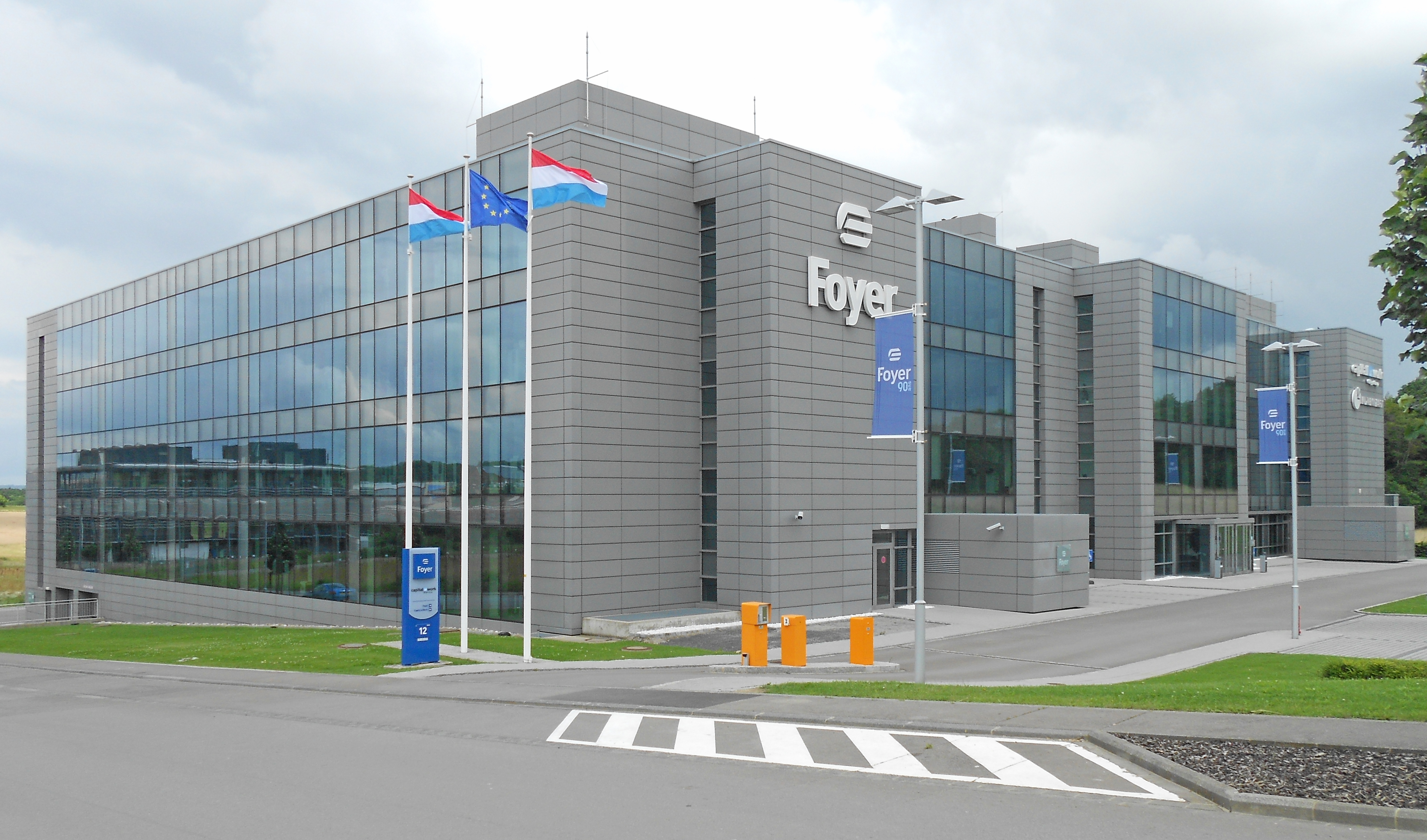 The headquarters of the Luxembourgish finance and insurance group Foyer S.A. in the business park "Am Bann" in Leudelange.